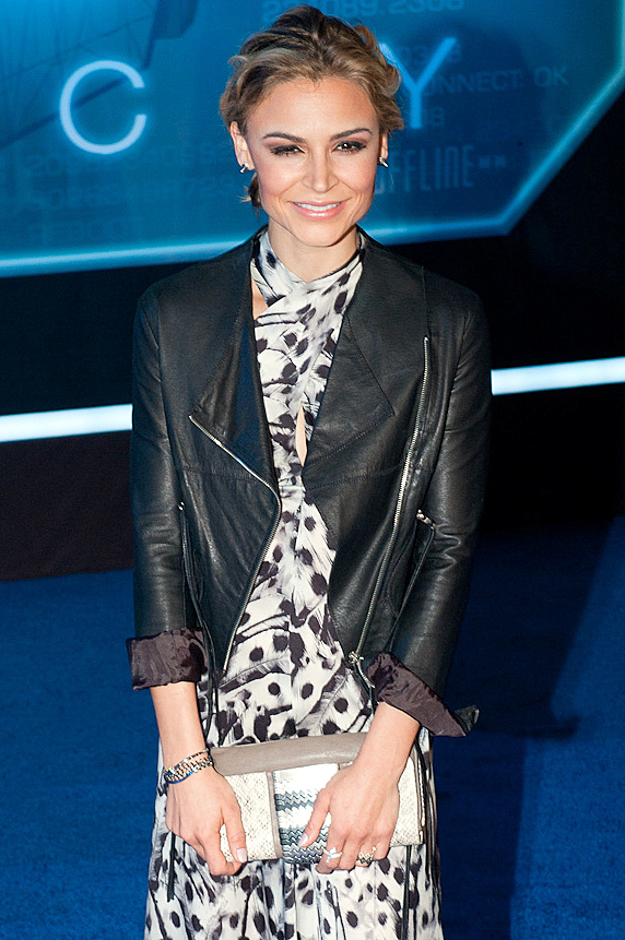 Samaire Armstrong at the Tron: Legacy Premiere 2010.